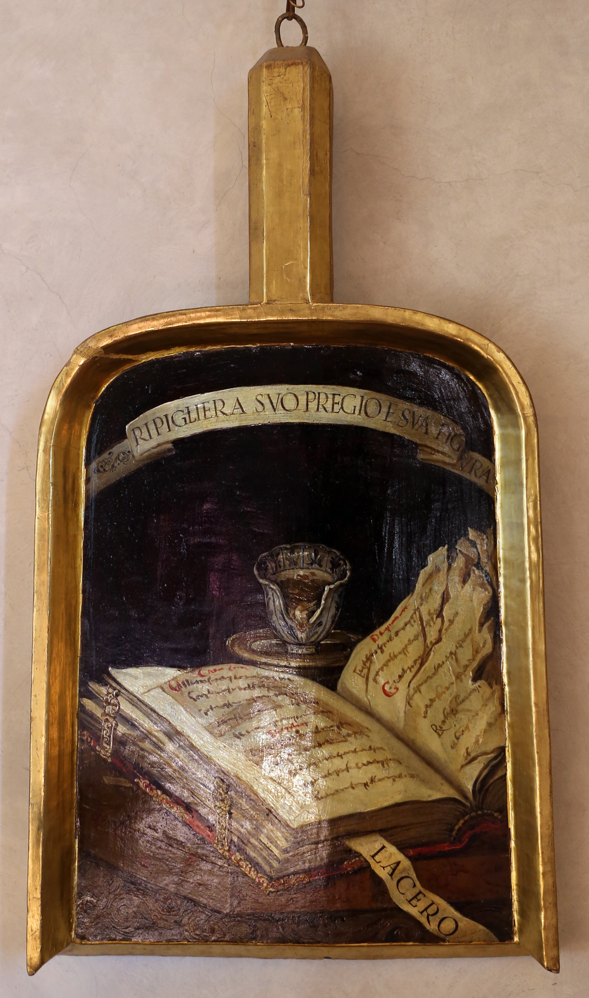 Shovels of Accademici della Crusca